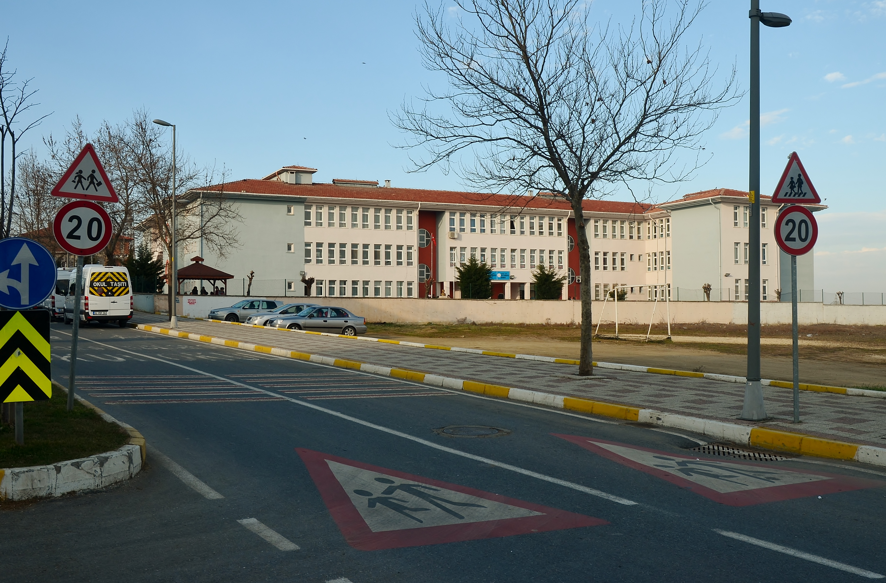 Çanta 80. Yıl Cumhuriyet İlköğretim Okulu (Primary school) in Çanta, Silivri